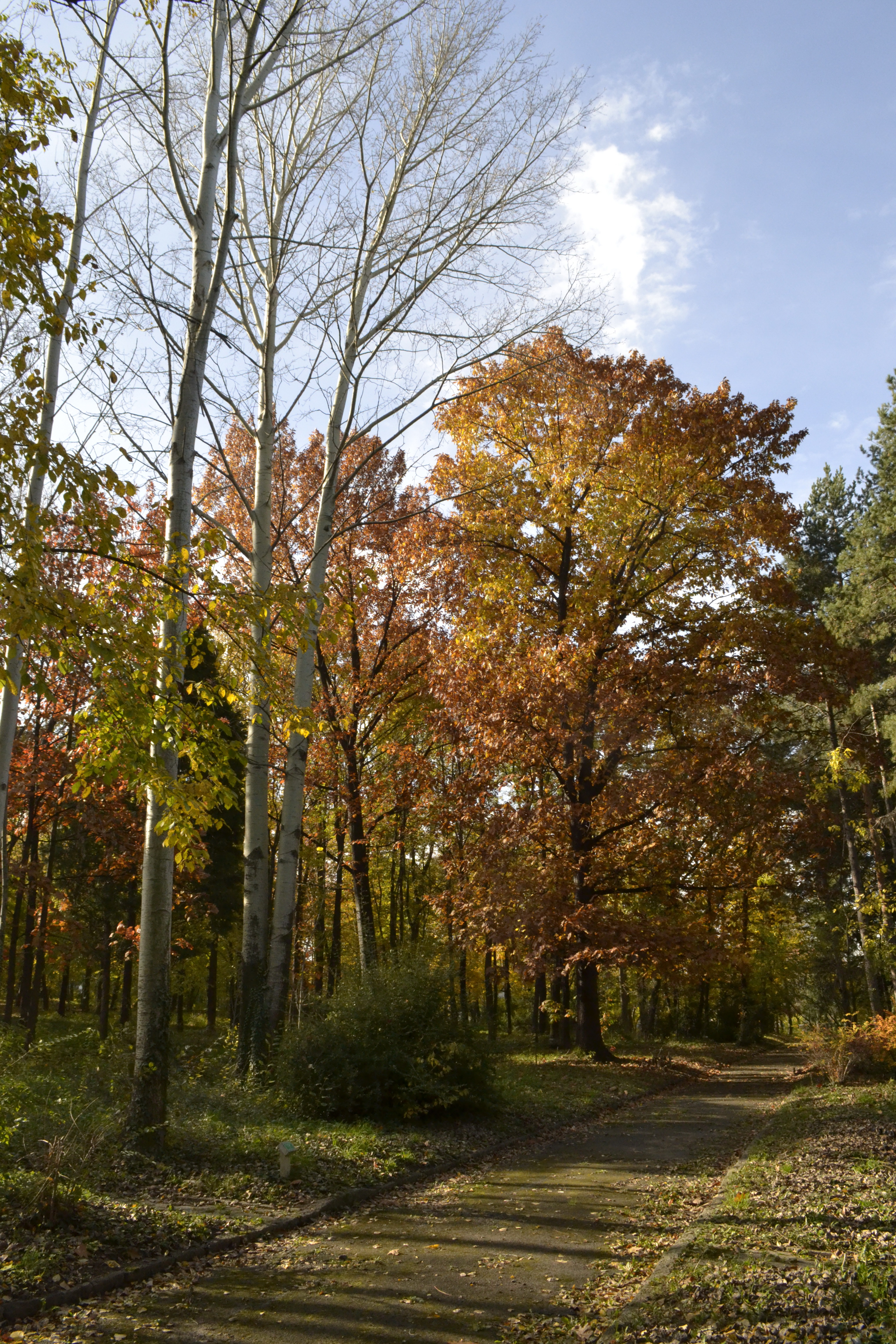 Arboretum of Faculty of Forestry in Belgrade.